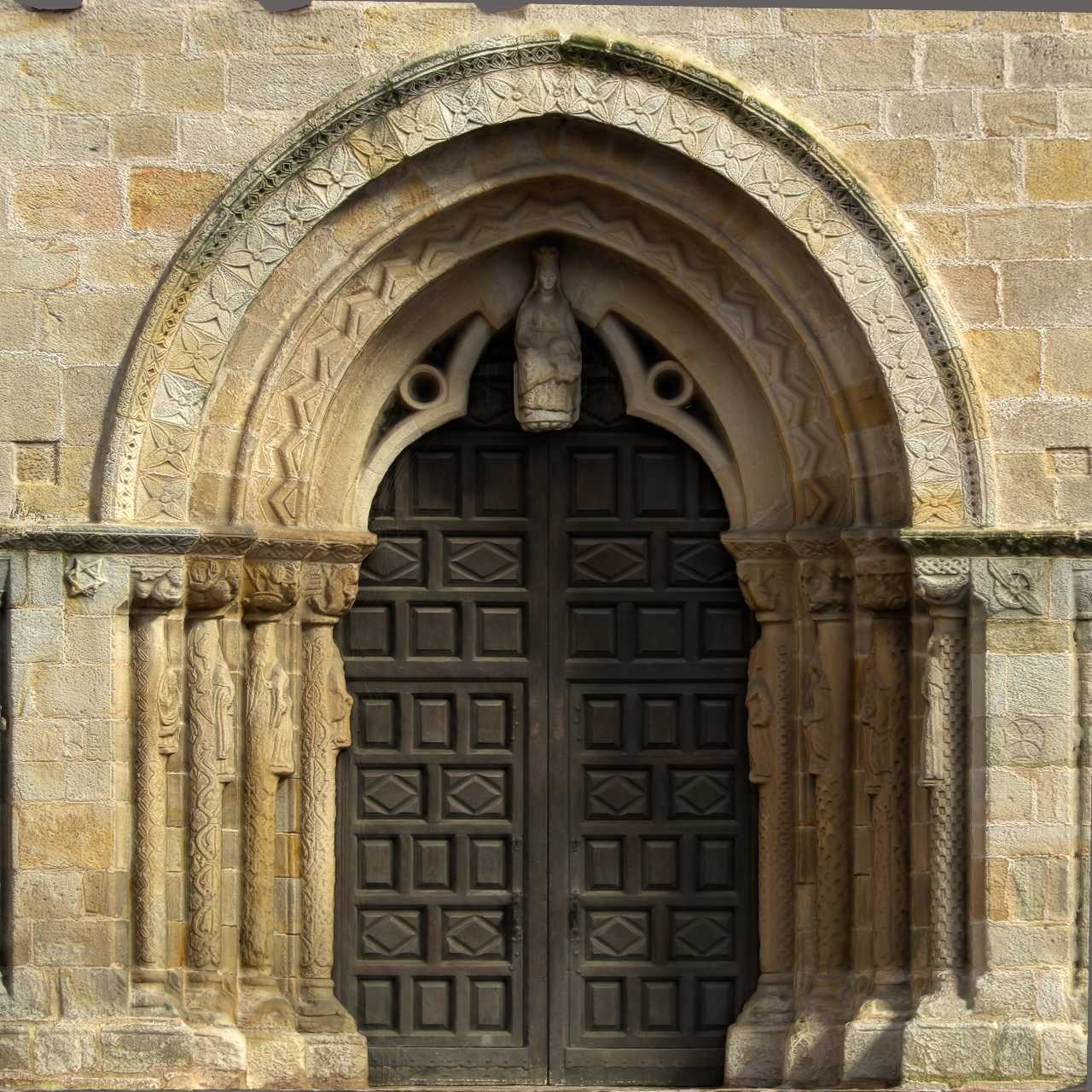 Example of reilluminable orthoimage. Portada de Santa María de la Oliva, Villaviciosa, Asturias, Spain. It was produced from multiple photographs by means of 3D dense photogrammetric reconstruction and rendered with synthetic illumination in an orthogonal view. An architectural orthoimage like this has the same geometric properties of a plan or technical drawing, with photographic appearance. Other illumination examples are shown in